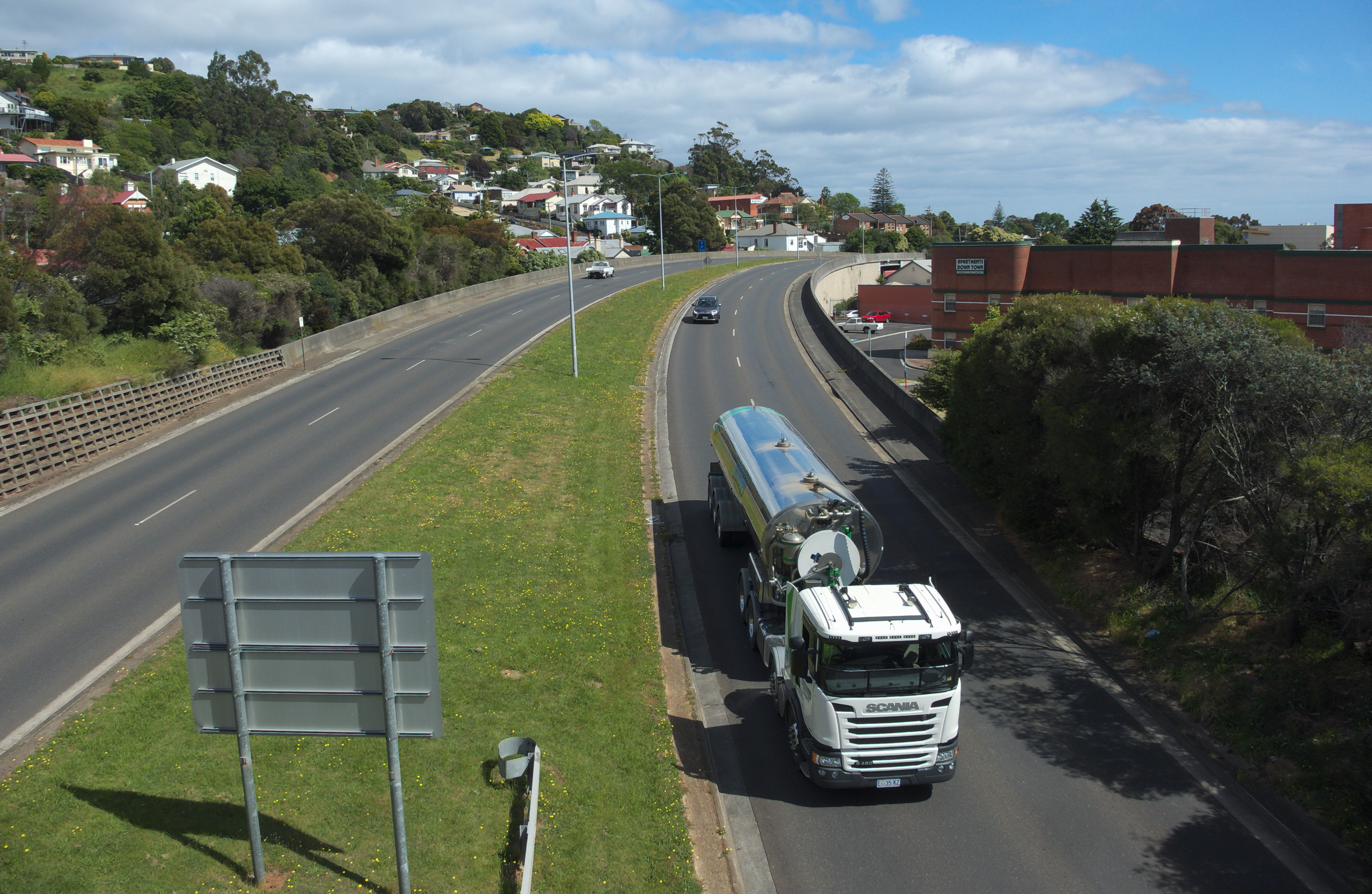 The Bass Highway in Burnie, Tasmania seen from the View Road bridge.